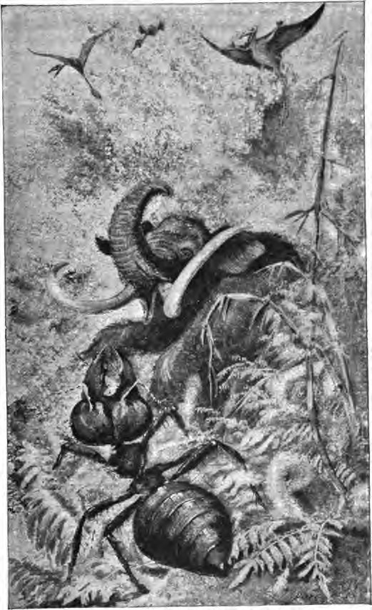 Illustrations from "A Journey in Other Worlds" by John Jacob Astor IV; 1894, 1st US edition. Illustration by Daniel Carter Beard. Orginal caption / Oryginalny podpis